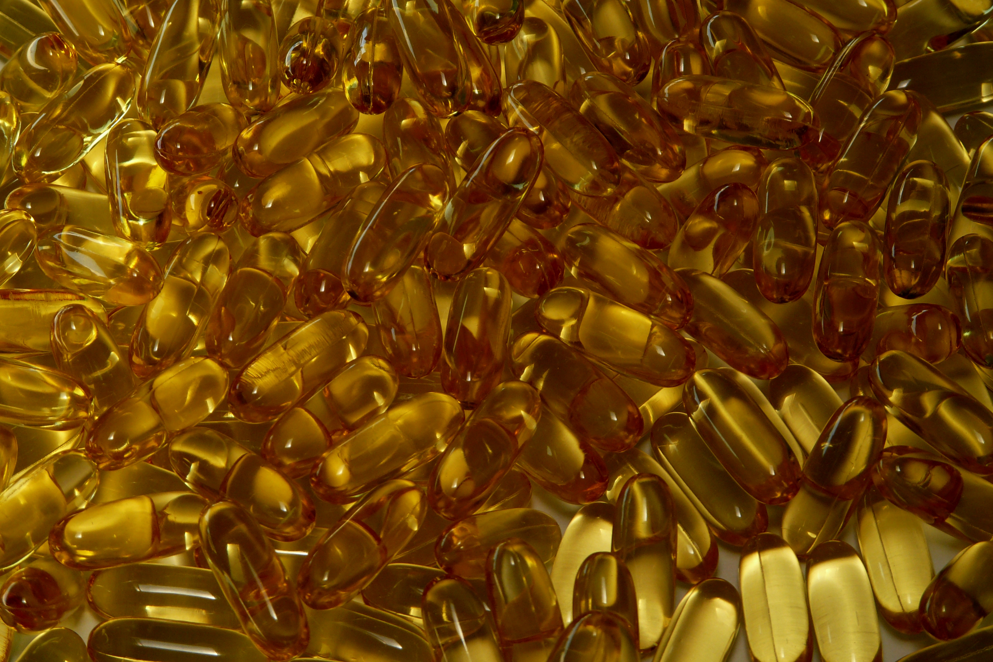 A pile of gelatin capsules containing fish oil high in omega-3.